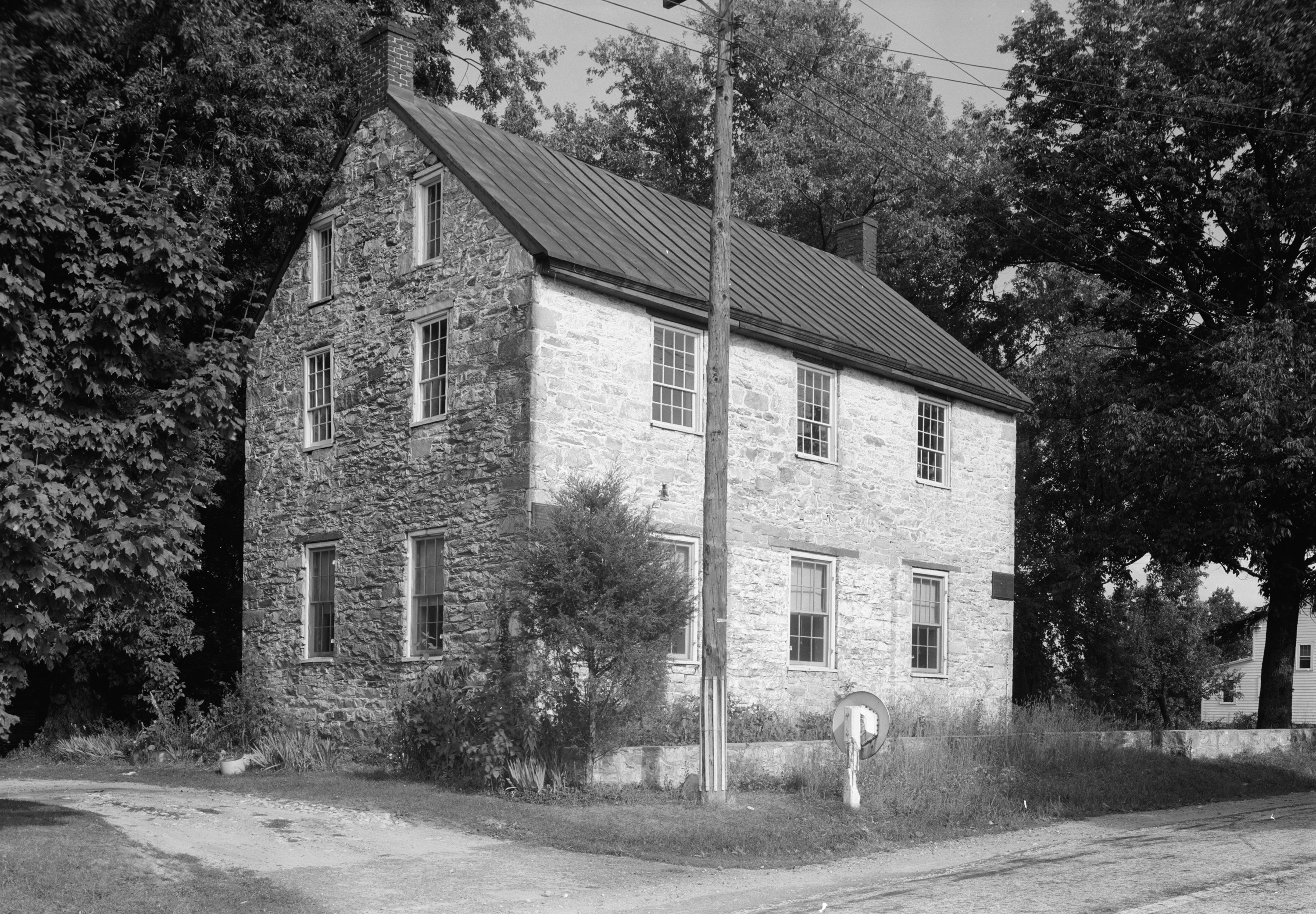 Brookeville Academy, Georgia Avenue (State Route 97), Brookeville, Montgomery County, MD